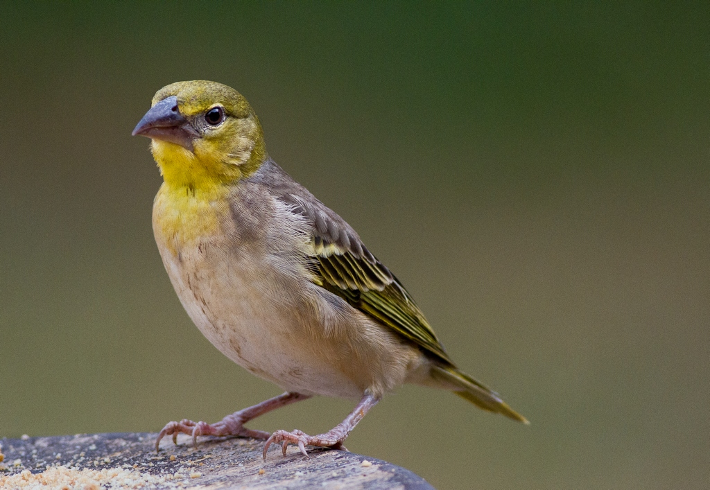 An immature Village Weaver in Gambia.